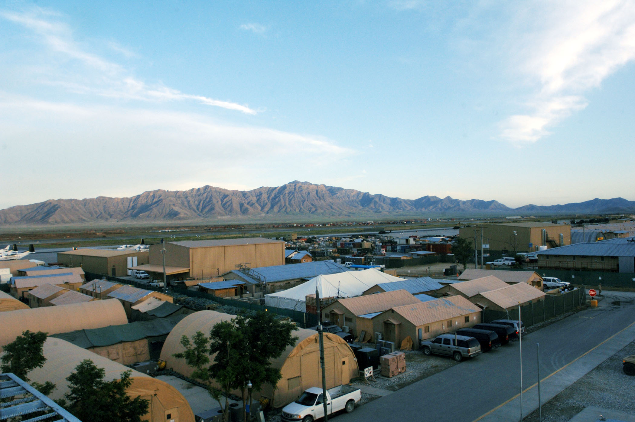 A view of Bagram Airfield, Afghanistan from the Air Traffic Control Tower's catwalk after a recent rainstorm.